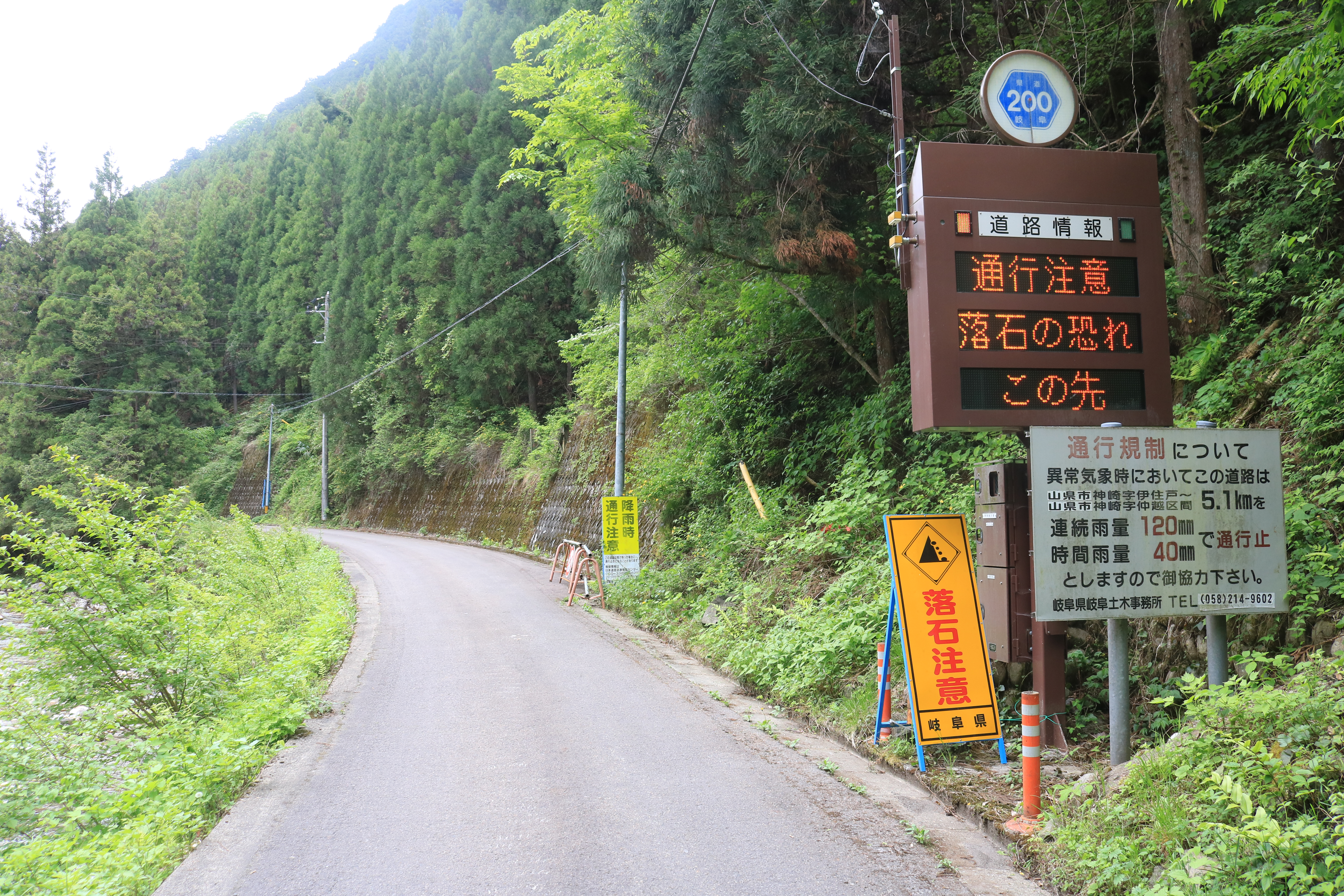 Gifu Prefectural Road Route 200 in Kanzaki, Yamagata, Gifu prefecture, Japan.